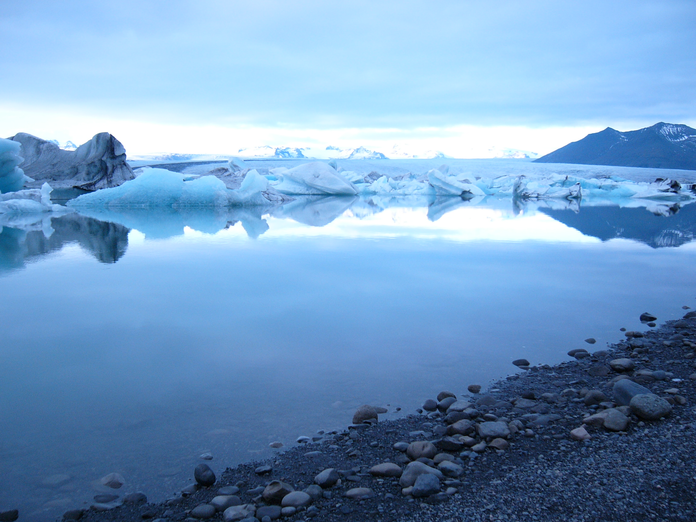 Photograph of Jokulsarlon in Iceland